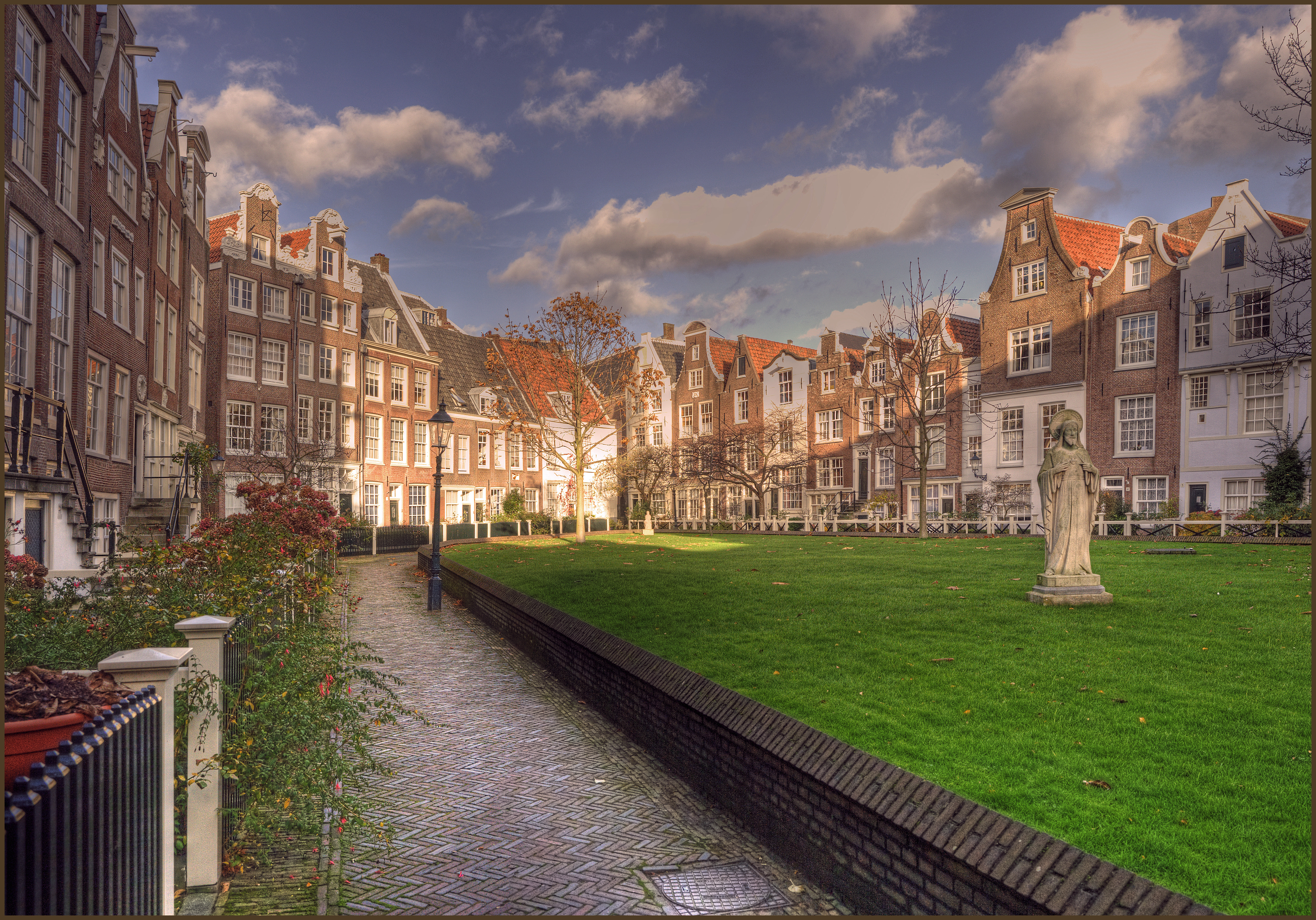 Dating back to the 14th century, the tranquil courtyard of the Begijnhof is surrounded by the bustle of Kalverstraat, Spui and the Nieuwezijds Voorburgwal. The original facades were replaced in the 17th and 18th century, but 18 of the houses still have gothic wooden frames—one of which is still visible. The Begijnhofkapel, with its paintings of the Miracle of Amsterdam, and the English Church remind visitors of the courtyard’s religious foundations. This is an image of rijksmonument number 344 This is an image of rijksmonument number 346 This is an image of rijksmonument number 345 This is an image of rijksmonument number 35824 This is an image of rijksmonument number 346 This is an image of rijksmonument number 347 This is an image of rijksmonument number 348 This is an image of rijksmonument number 349 This is an image of rijksmonument number 350 This is an image of rijksmonument number 351 This is an image of rijksmonument number 352 This is an image of rijksmonument number 353 This is an image of rijksmonument number 354 This is an image of rijksmonument number 355 This is an image of rijksmonument number 356 This is an image of rijksmonument number 357